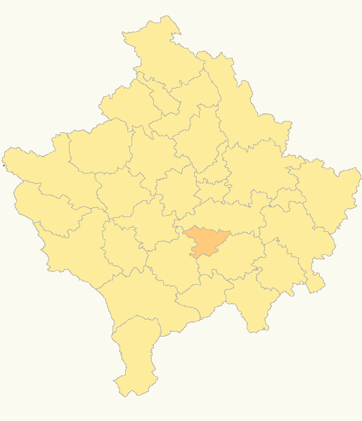 Shtime